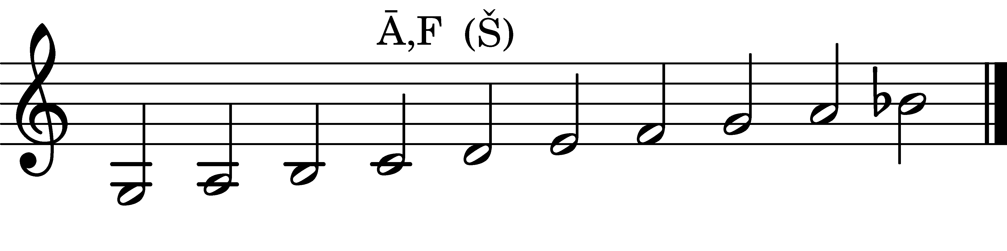 Mode of Mahur